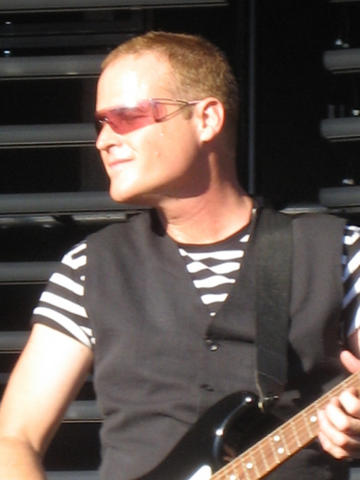 Keith Strickland from The B-52's @LoveBox festival in London, July 22nd 2007